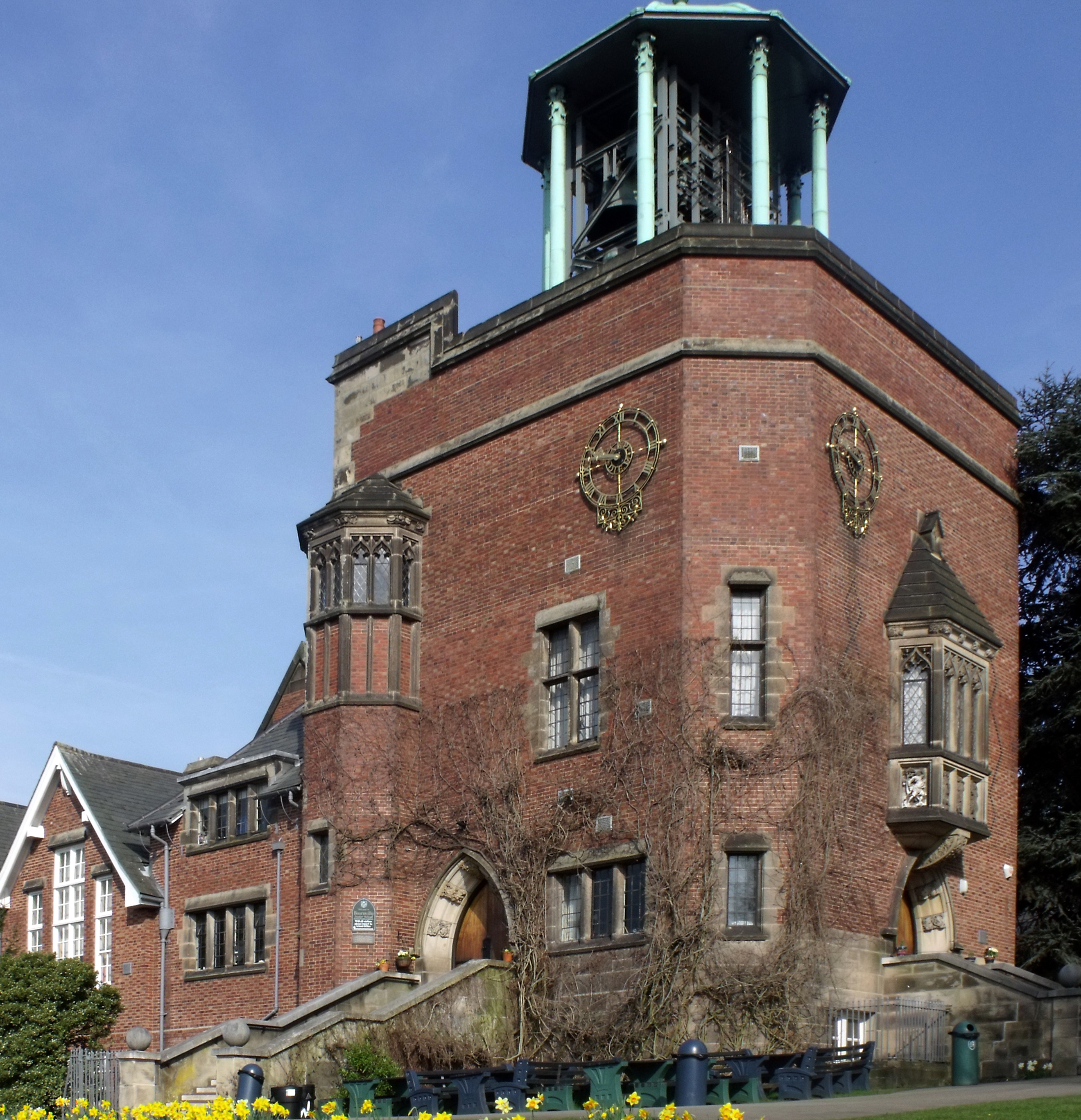 Bournville junior School and Carillion, designed by William Alexander Harvey and built in 1905